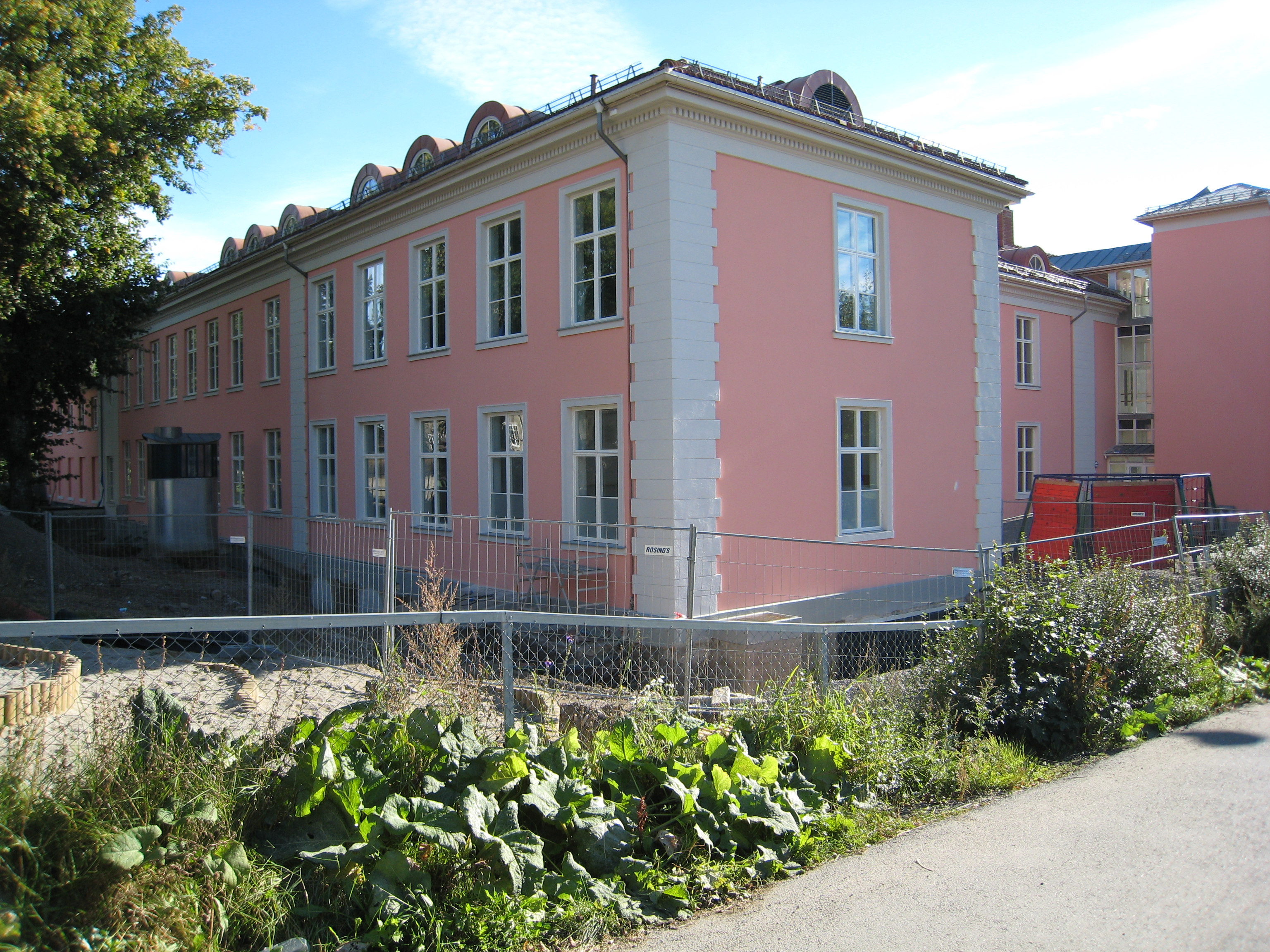 The elementary school Ullevål skole.